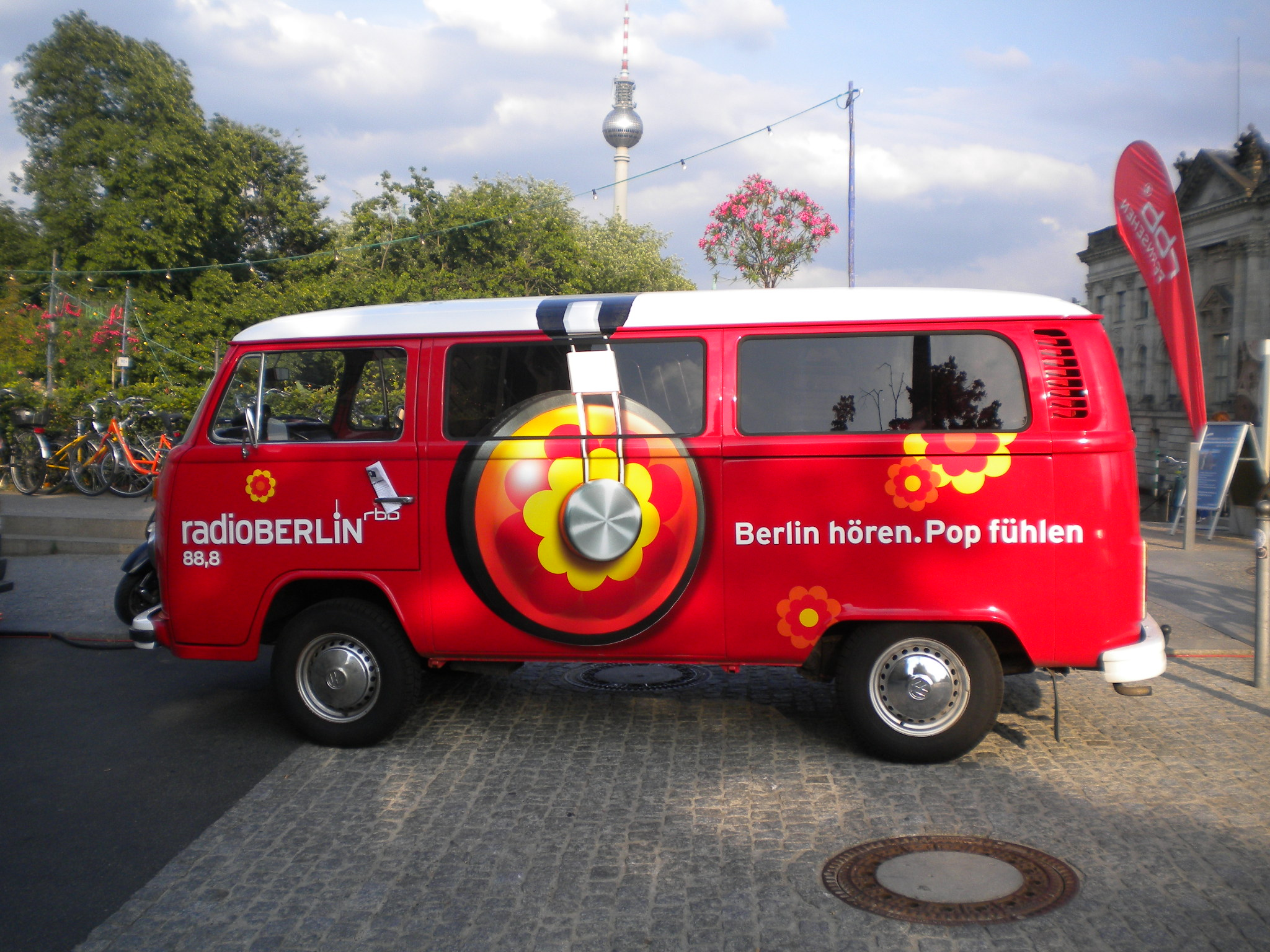 Van of Radio Berlin in Berlin MitteUnknownUnknown ریڈیو برلن